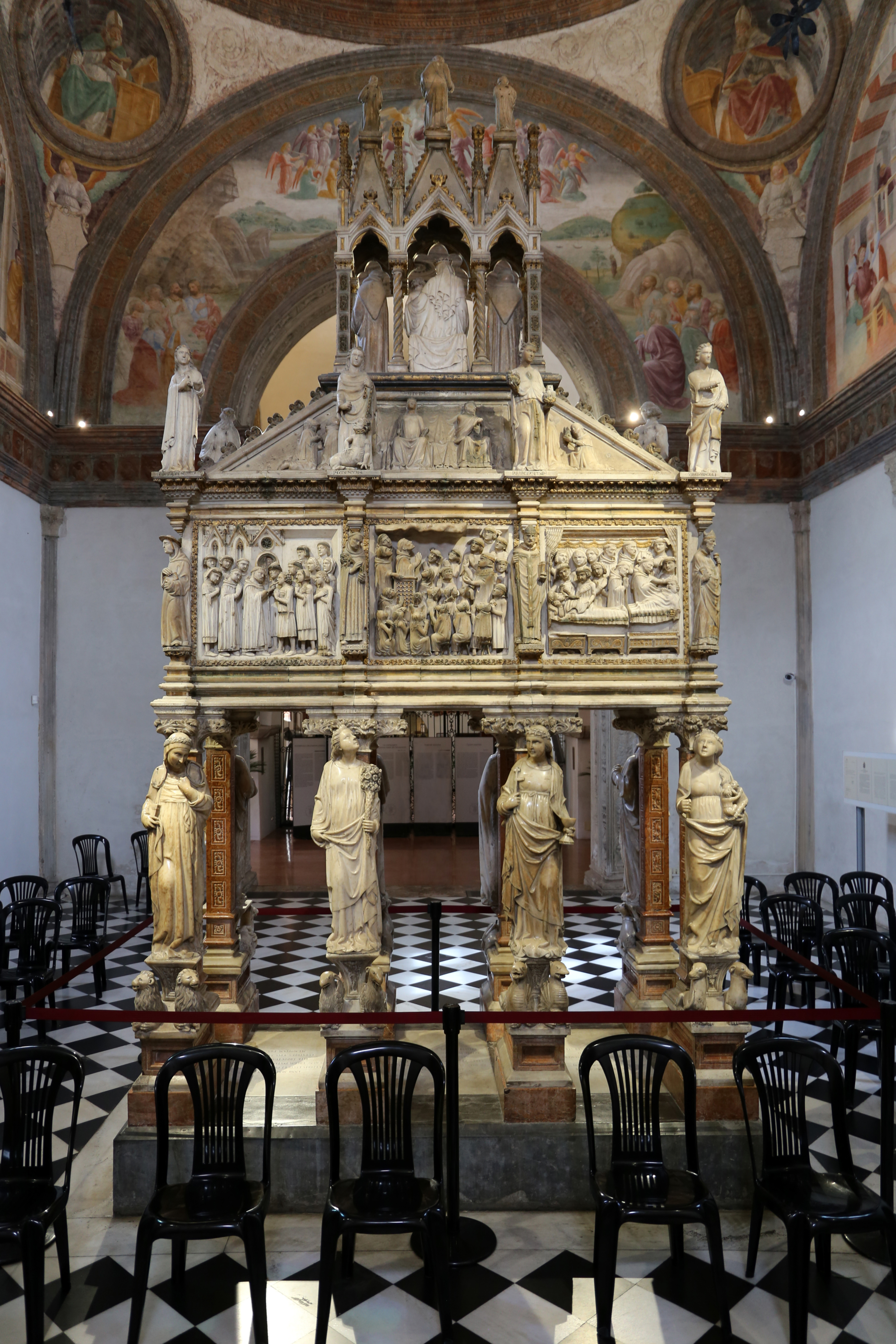 Peter of Verona's grave